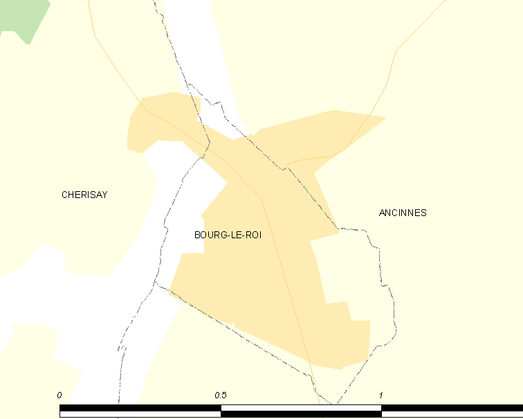 Map of French municipality